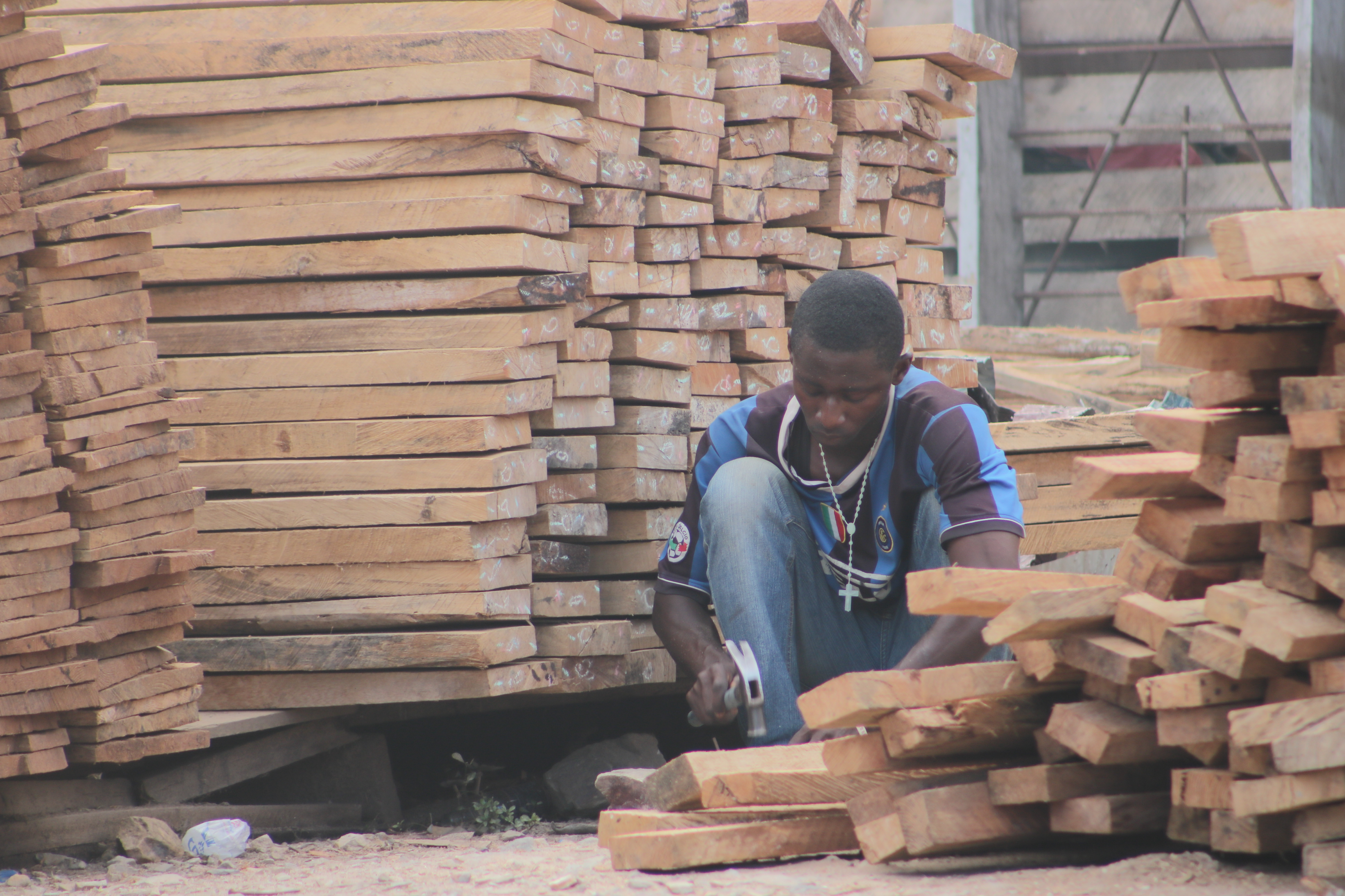 This is an image of "African people at work" from Ghana